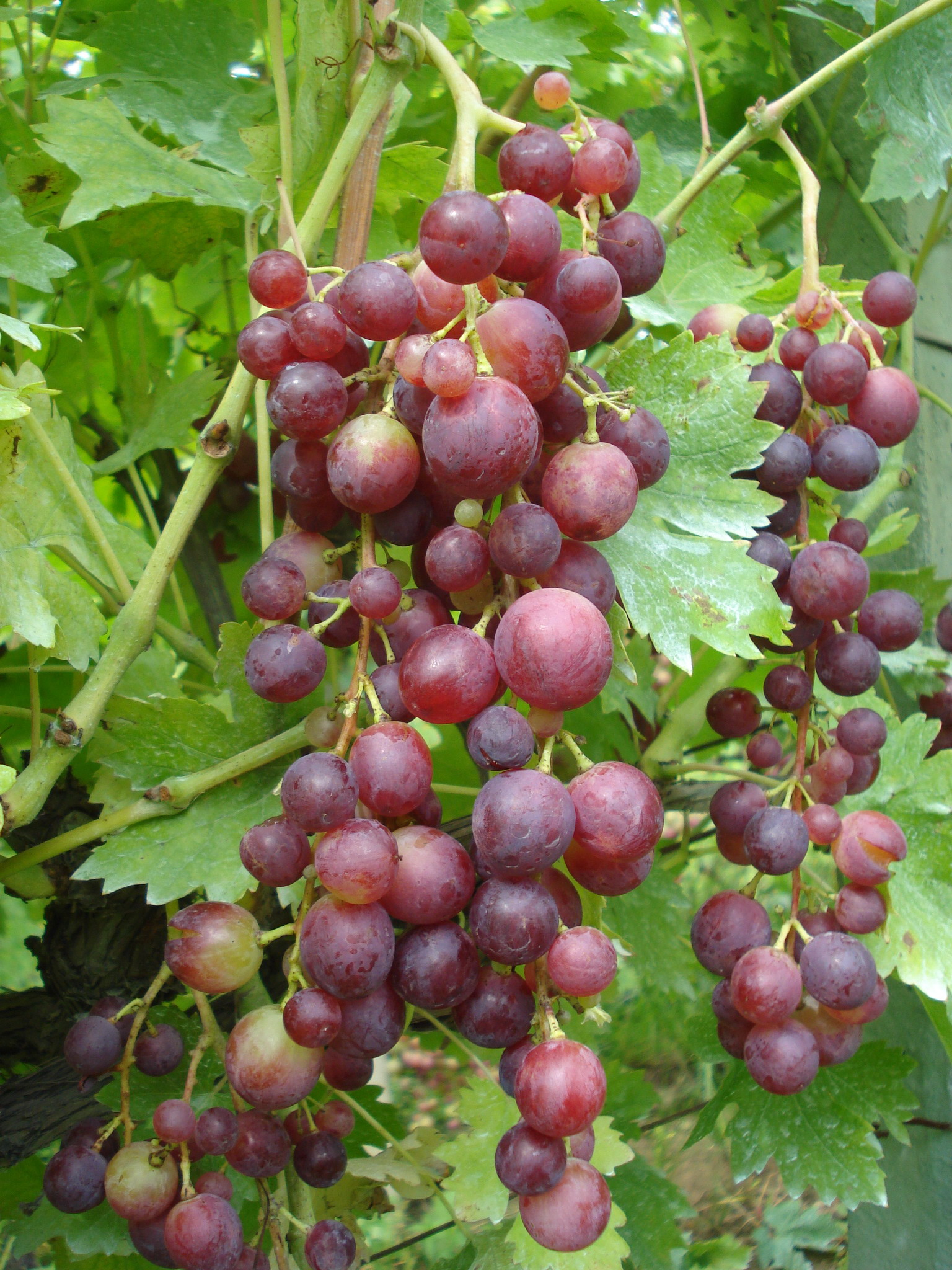 Cardinal - table grape variety, grown in Medjimurje County, northern Croatia (2014)